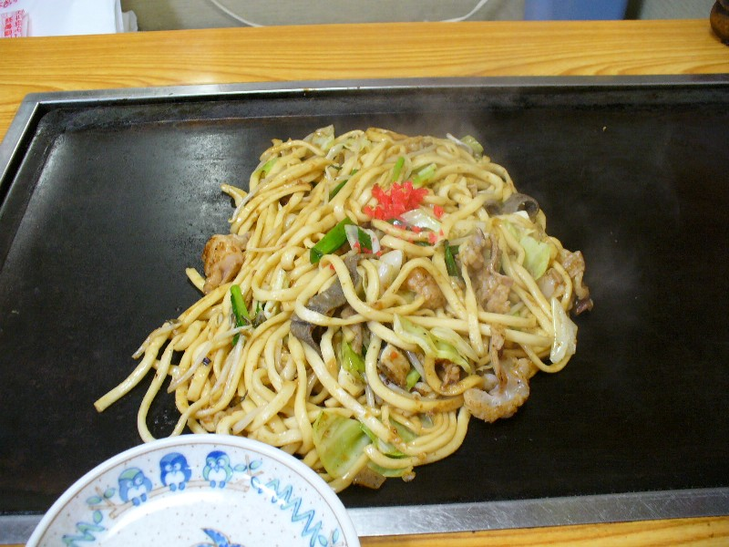 Horumon Udon noodle, mainly eaten around Hyogo and Okayama, Japan. Horumon Udon is a kind of Udon, and contains beef or pork offal. The photo was taken in a local restaurant in Sayo, Hyogo, Japan